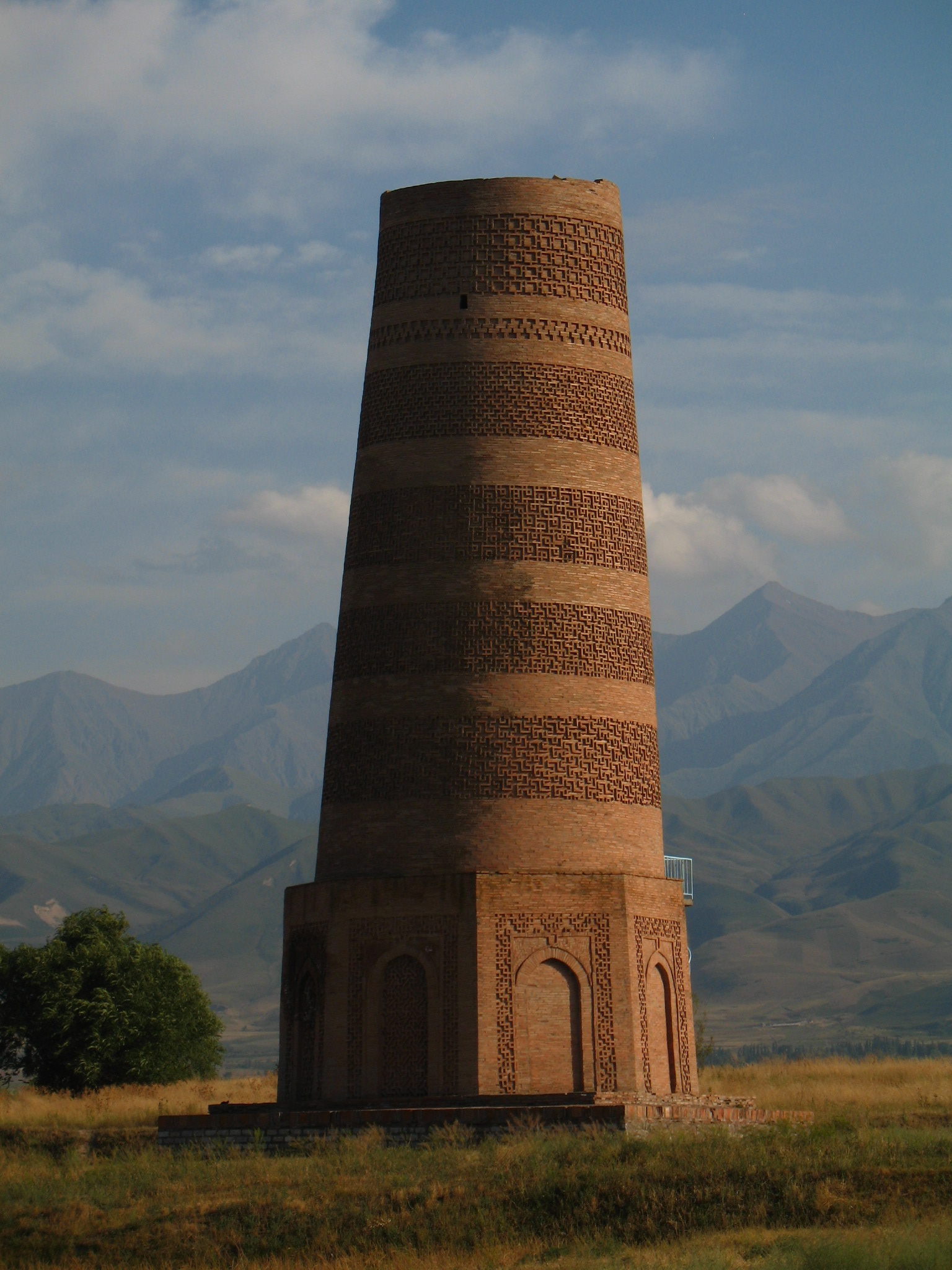 Burana tower Кыргызча: Бурана мунарасы